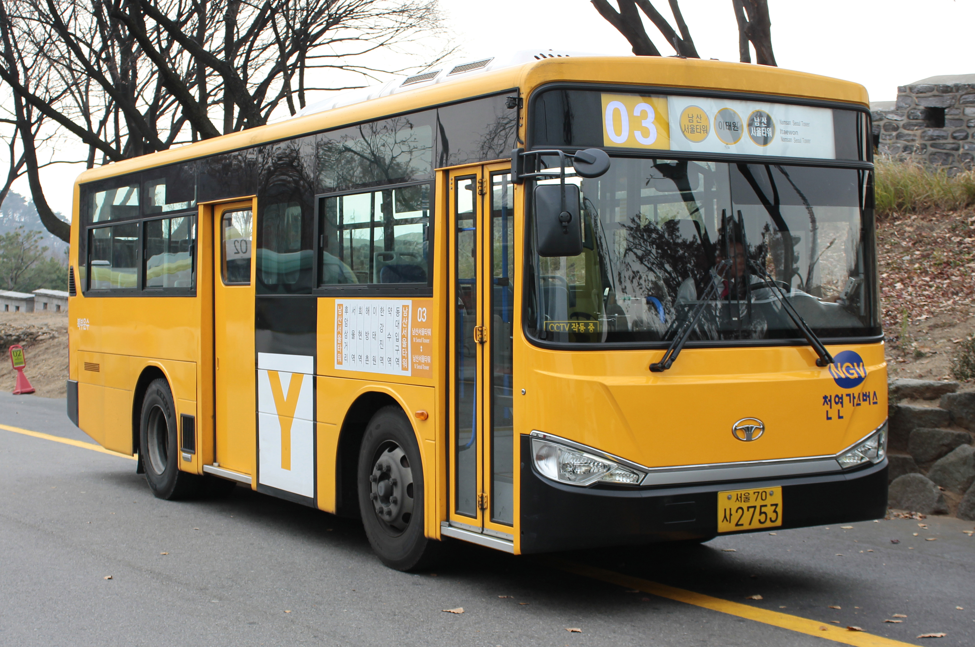 Daewoo New BS090 Motorcoach @N Seoul Tower